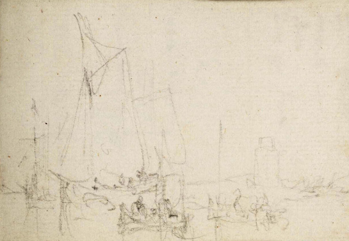 Study for Dort